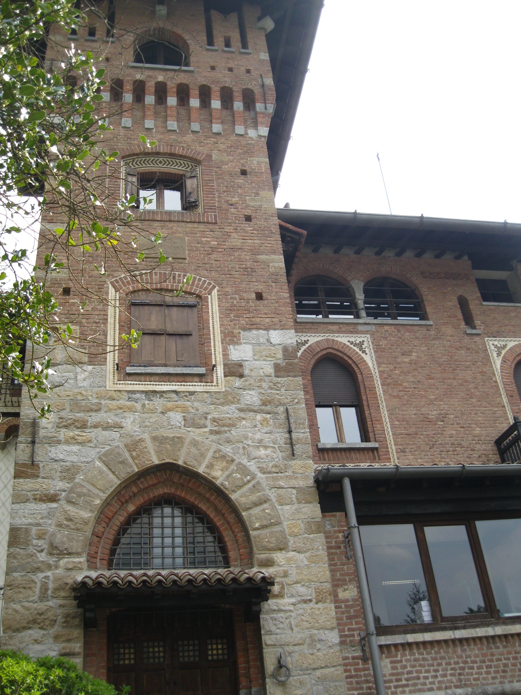 Tower of the Migliavacca's Villa in Introbio, a small town in Lombardy, Italy